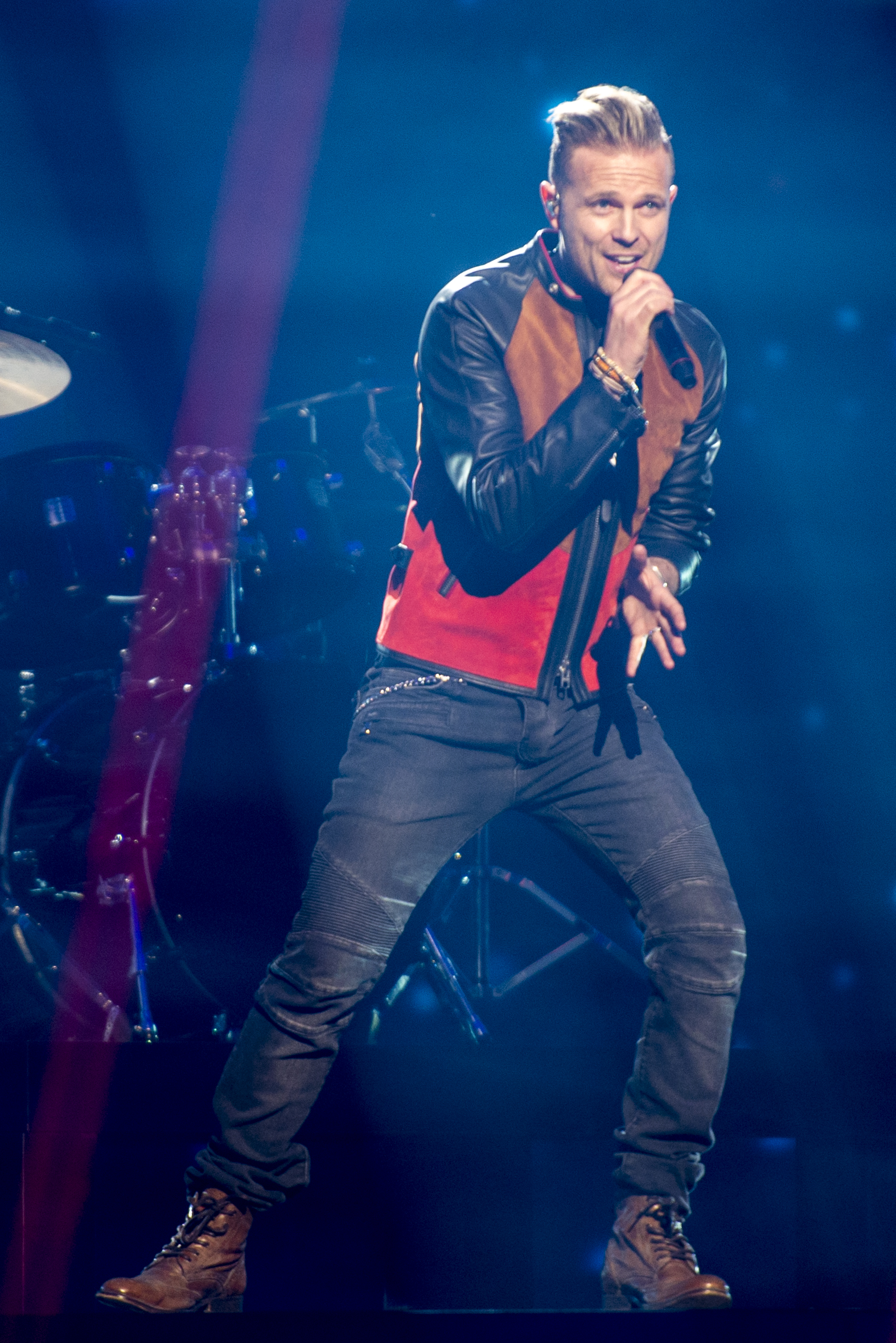 Nicky Byrne representing Ireland with the song "Sunlight" during a rehearsal before the second semi final of the Eurovision Song Contest 2016 in Stockholm. (Help translate this text)